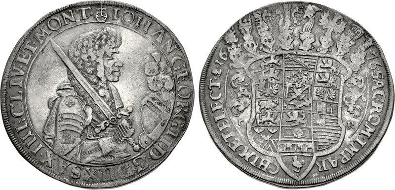 GERMANY, Sachsen-Albertinische Linie (Kurfürstentum und Herzogtum). Johann Georg II. 1656-1680. AR Gesamttaler (46mm, 28.92 g, 7h). Dresden mint. Dated 1676. Armored half-length bust right, holding sword; helmet before / Coat-of-arms surmounted by eight helmets; C R flanking. Clauss & Kahnt 398; Schnee 946; Davenport 7626. Good VF, toned, some roughness on reverse. Scarce.